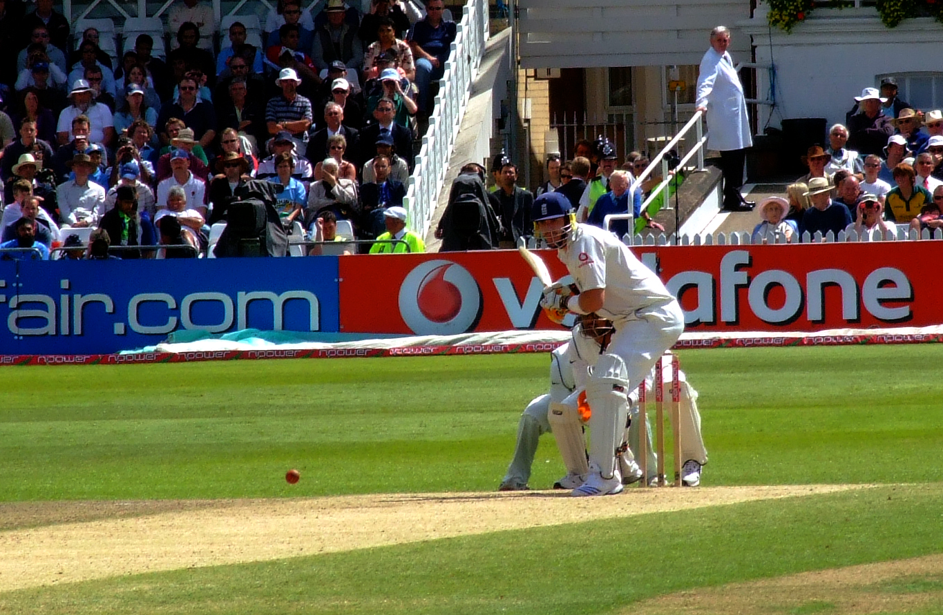 4th Day, 2nd Test: England v India at Trent Bridge, Nottingham, 30th July 2007 Kevin Pietersen prepares to send this one off to the boundary.